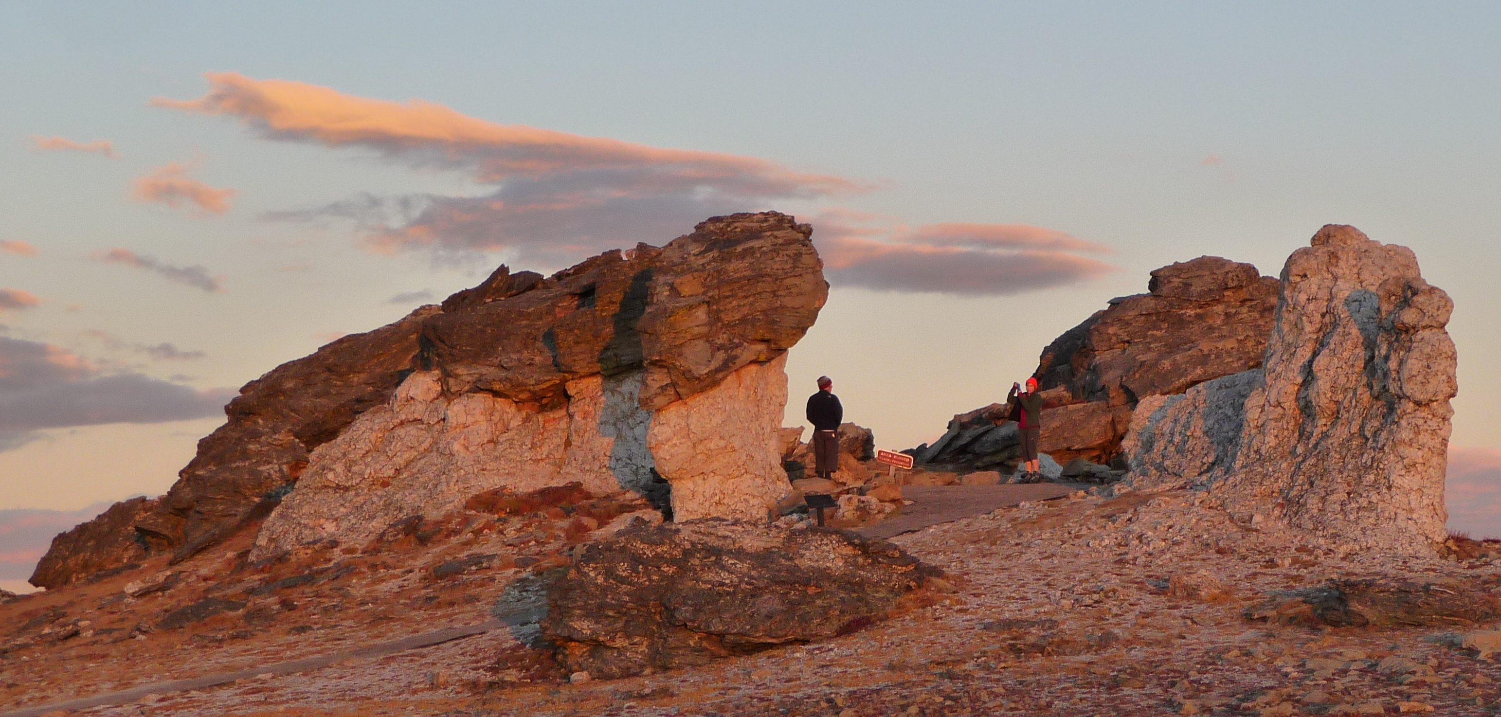 See file name